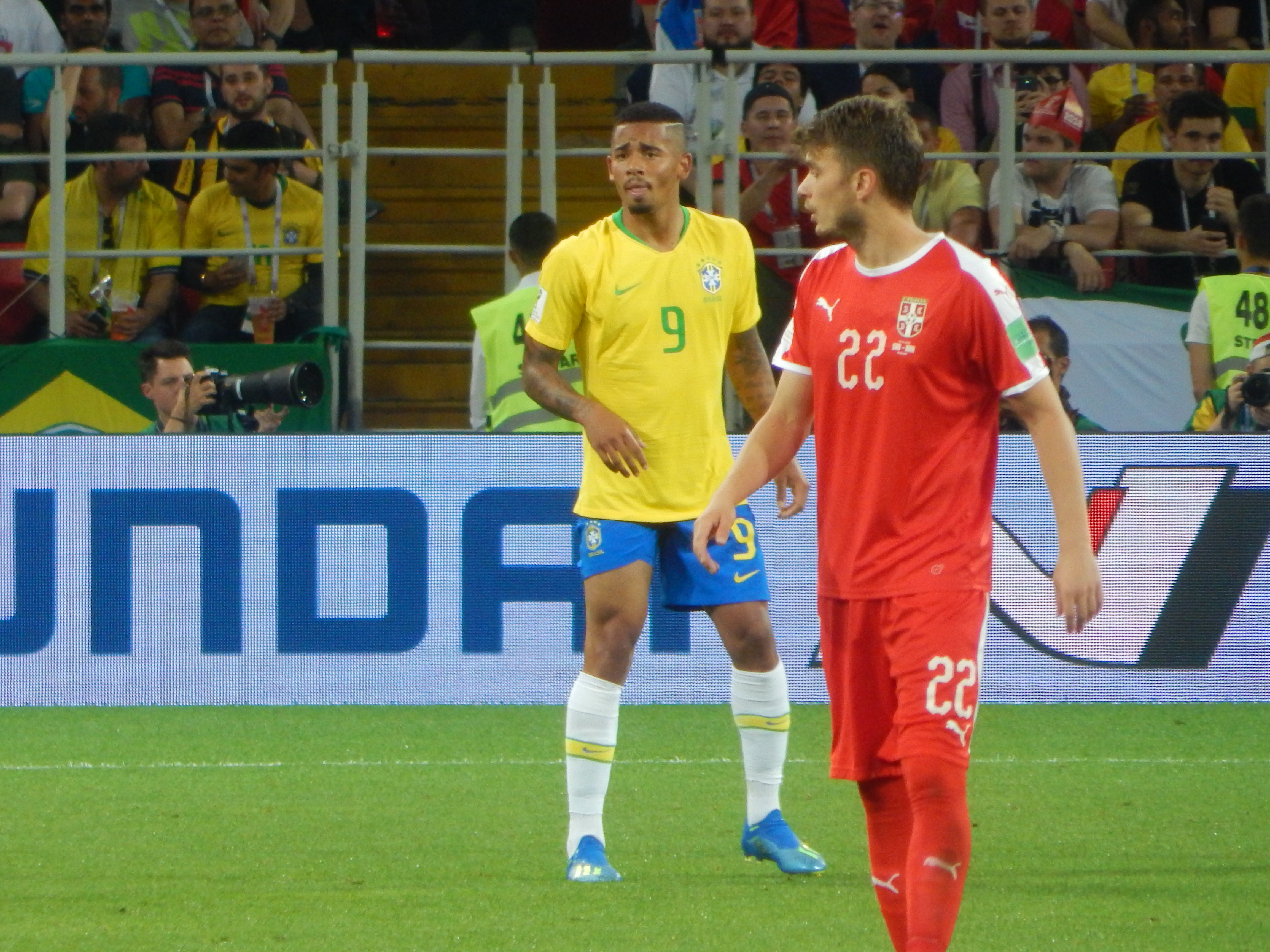 FIFA World Cup 2018, Group E, Serbia vs. Brazil